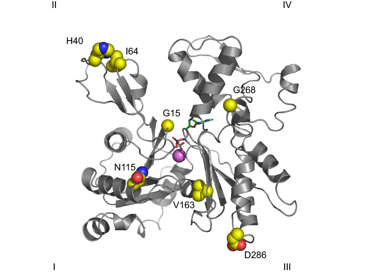 Position of the seven mutations used in author's study on the three dimensional representation of the eskeletal muscle actin monomer. The seven mutations selected for this study are represented on the ribbon diagram of the actin molecule from PDB code 1ATN. Calcium is shown in magenta and the adenine of ATP is green with the phosphates in orange. For the side chain atoms, carbon is yellow, nitrogen is blue and oxygen is red.